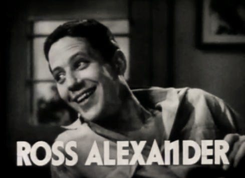 Ross Alexander in China Clipper - trailer (cropped screenshot)